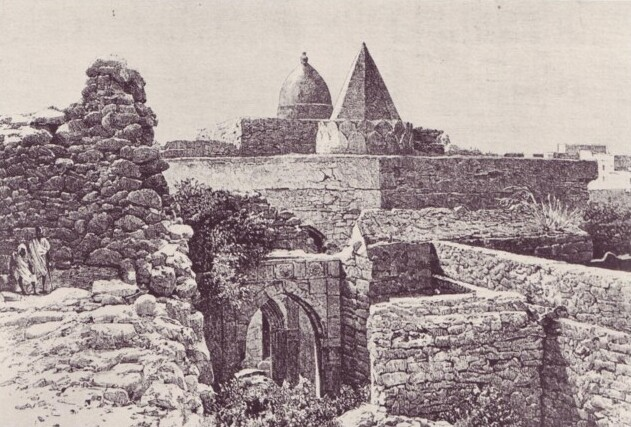 'The Fakhr Ad-Din Mosque" in Mogadishu in 1882. From E.Cerulli, Somalia, Scritti Vari Editi ed Inediti, Vol. 1., Fig. XV. Istituto Poligrafico dello Stato, P.V., Rome, 1957. Figure is referenced as Dal Voyage chez les Benadirs di G. Revoil. Figure courtesy Library of Congress" (from page 138 of "Somalia in Word and Image", 1986, Ed by K.S. Loughran., J.L. Loughran., J.W. Johnson., S.S. Samatar. Published by the Foundation for Cross Cultural Understanding, Washington, D.C., and Indiana University Press).